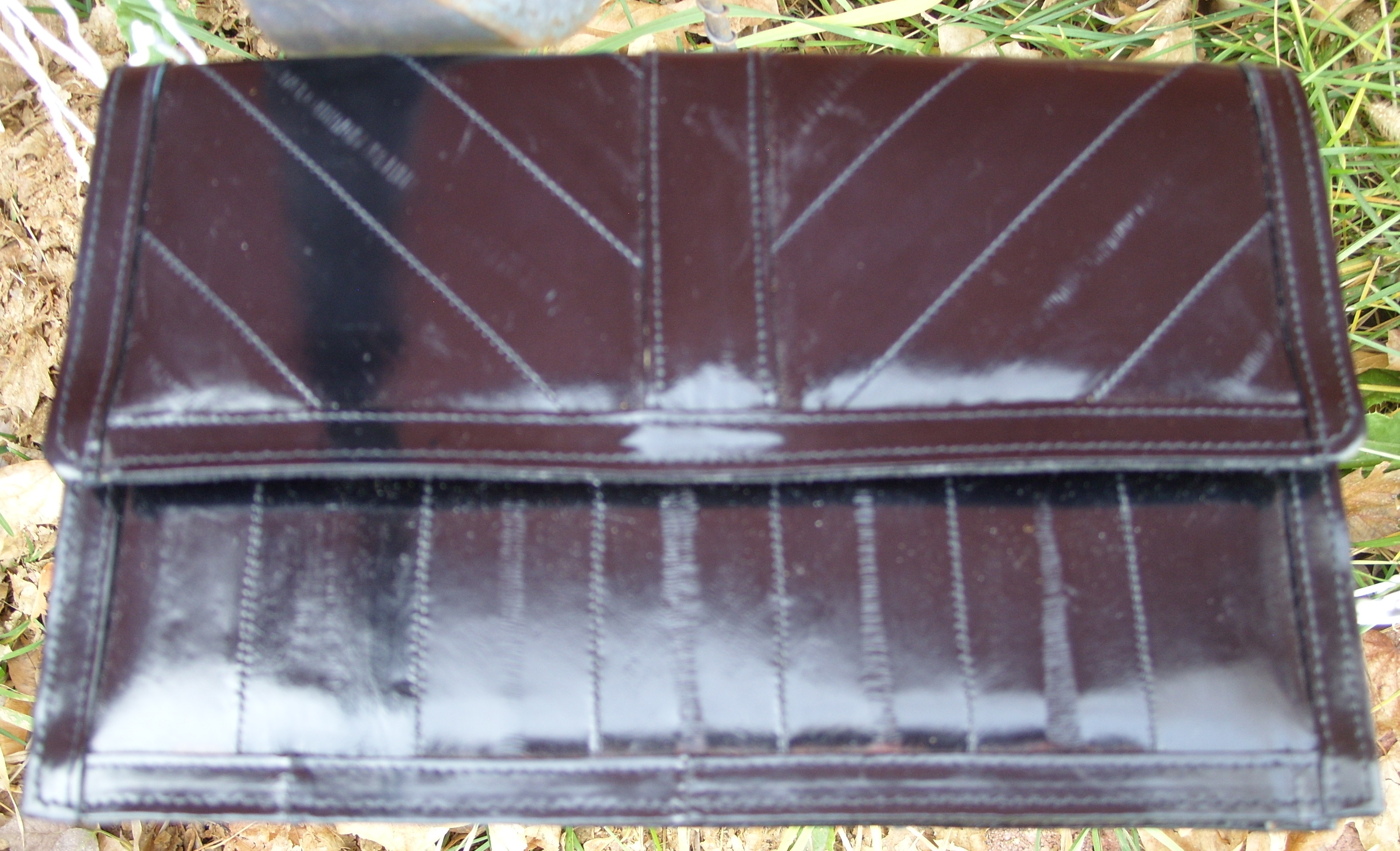 A clutch-style bag made from genuine eel skin.